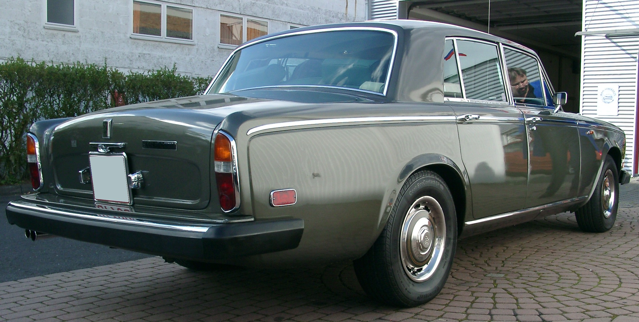 Rolls-Royce Silver Shadow II